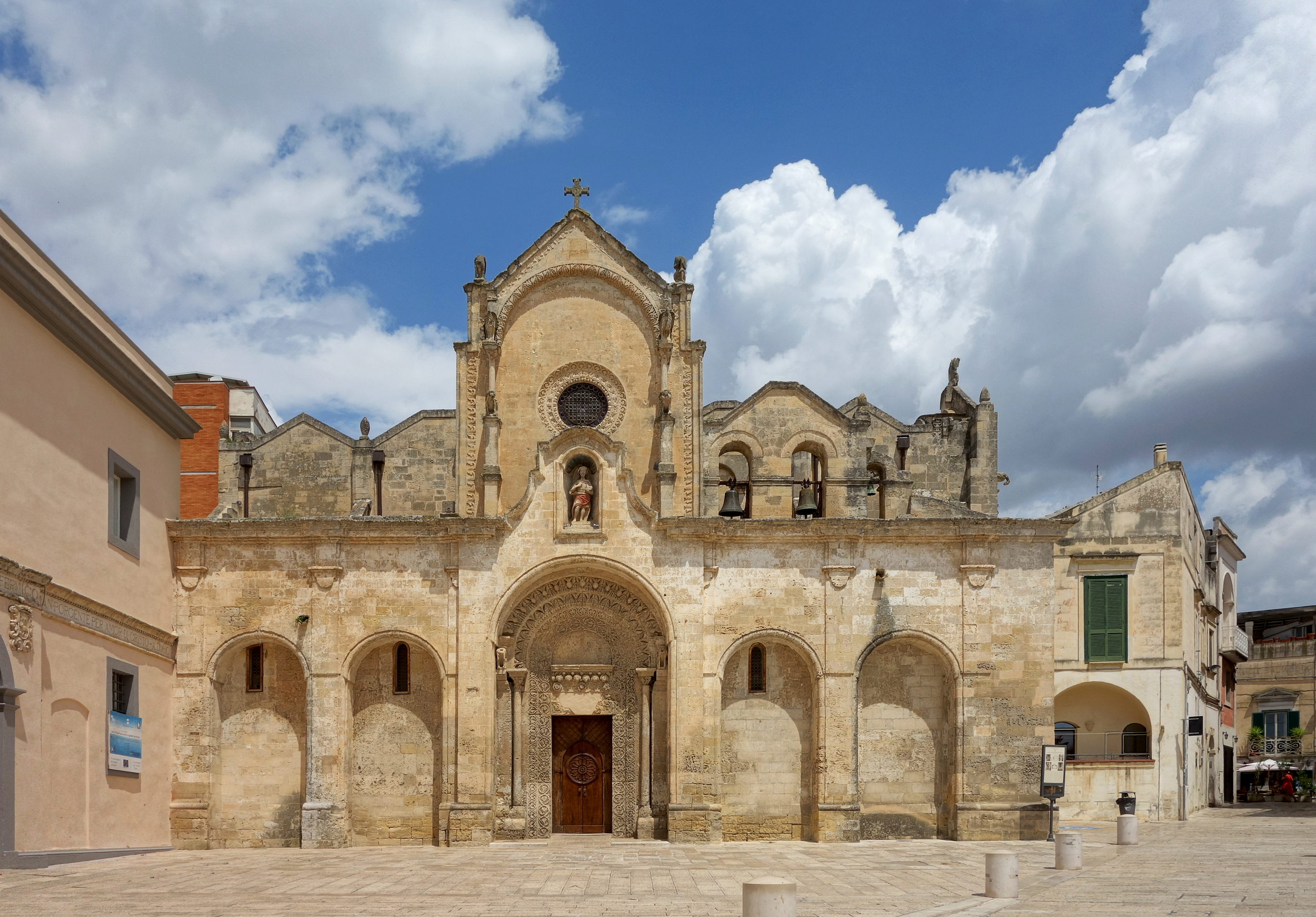 San Giovanni Battista church in Matera, Italy.